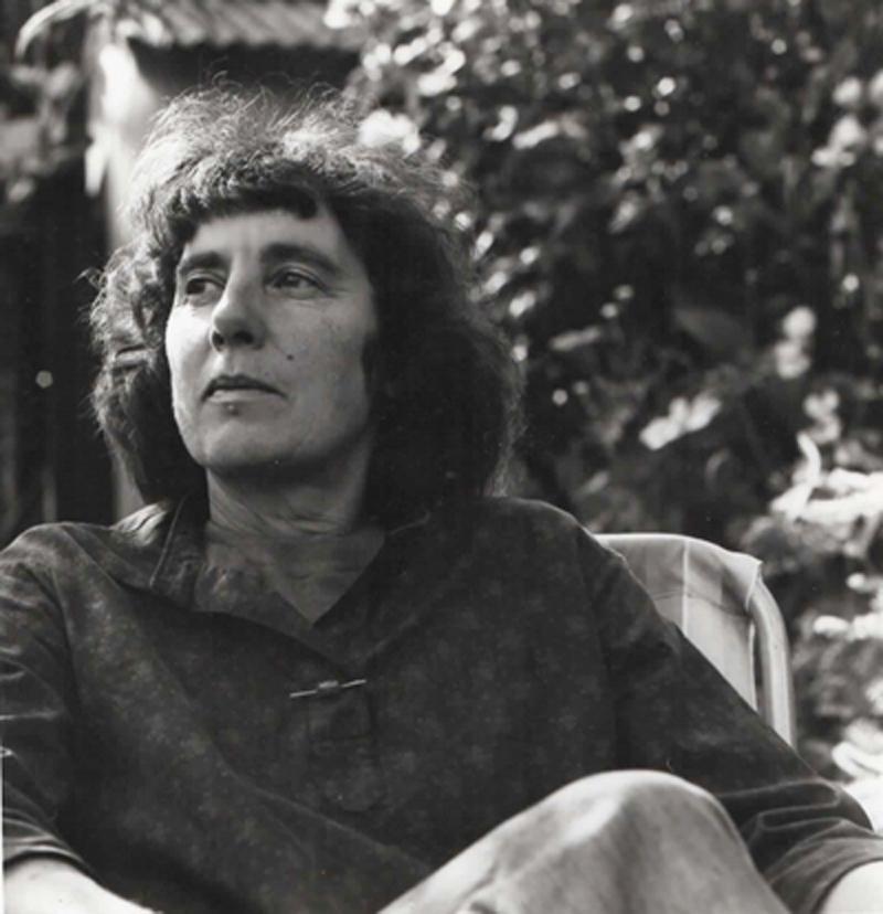 Zelda Nolte c.1970's